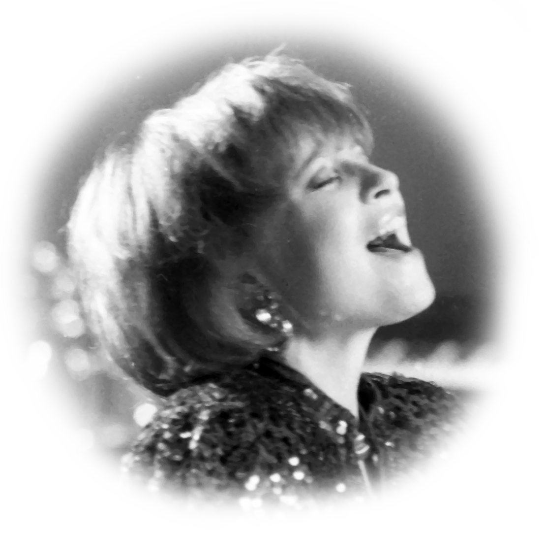 Kasey Cisyk (1989)